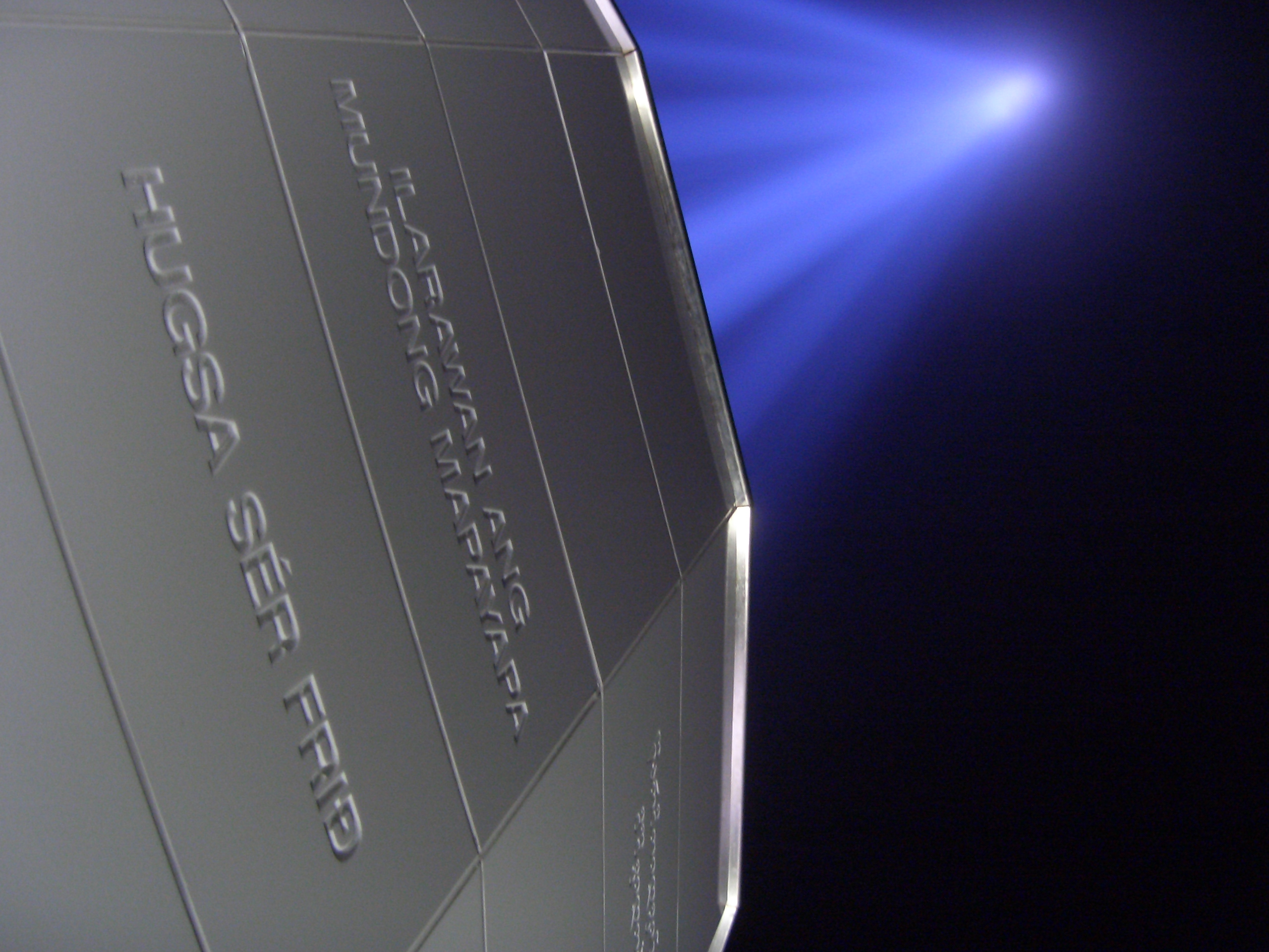 The Imagine Peace Tower in Iceland.